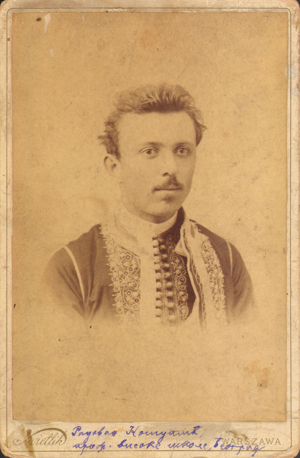 Radovan Kosutic, Serbian Slavic studies scholar